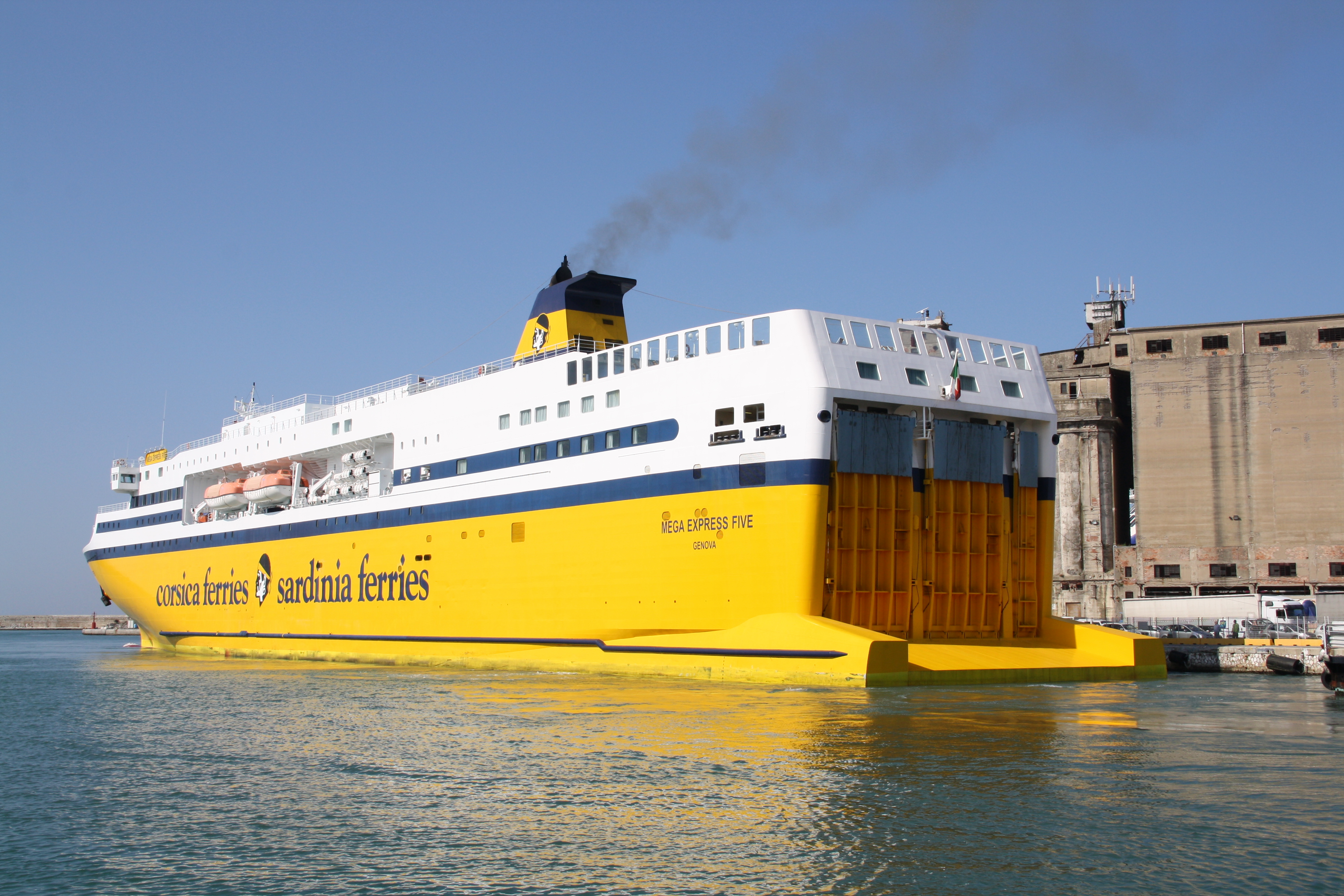 Shipowner: Forship Operator: Corsica Ferries Sardinia Ferries IMO: 9035101 MMSI: 247183200 Call sign: ICBD Type: Roll-on/roll-off Builder: Mitshubishi Heavy Industries, Shimonoseki, Japan Launch date: January, 29, 1993 Port of registry: Genova Gross tonnage: 27,711 t DWT: 5,802 t Length overall: 170 m Breadth: 25.03 m Speed: 26 knots Main engine: 2 Pielstick-Nippon Kokan 14cyl diesel engines Engine power: 30,580 kW Passengers decks: 4 Passengers: 1,800 Cars: 600